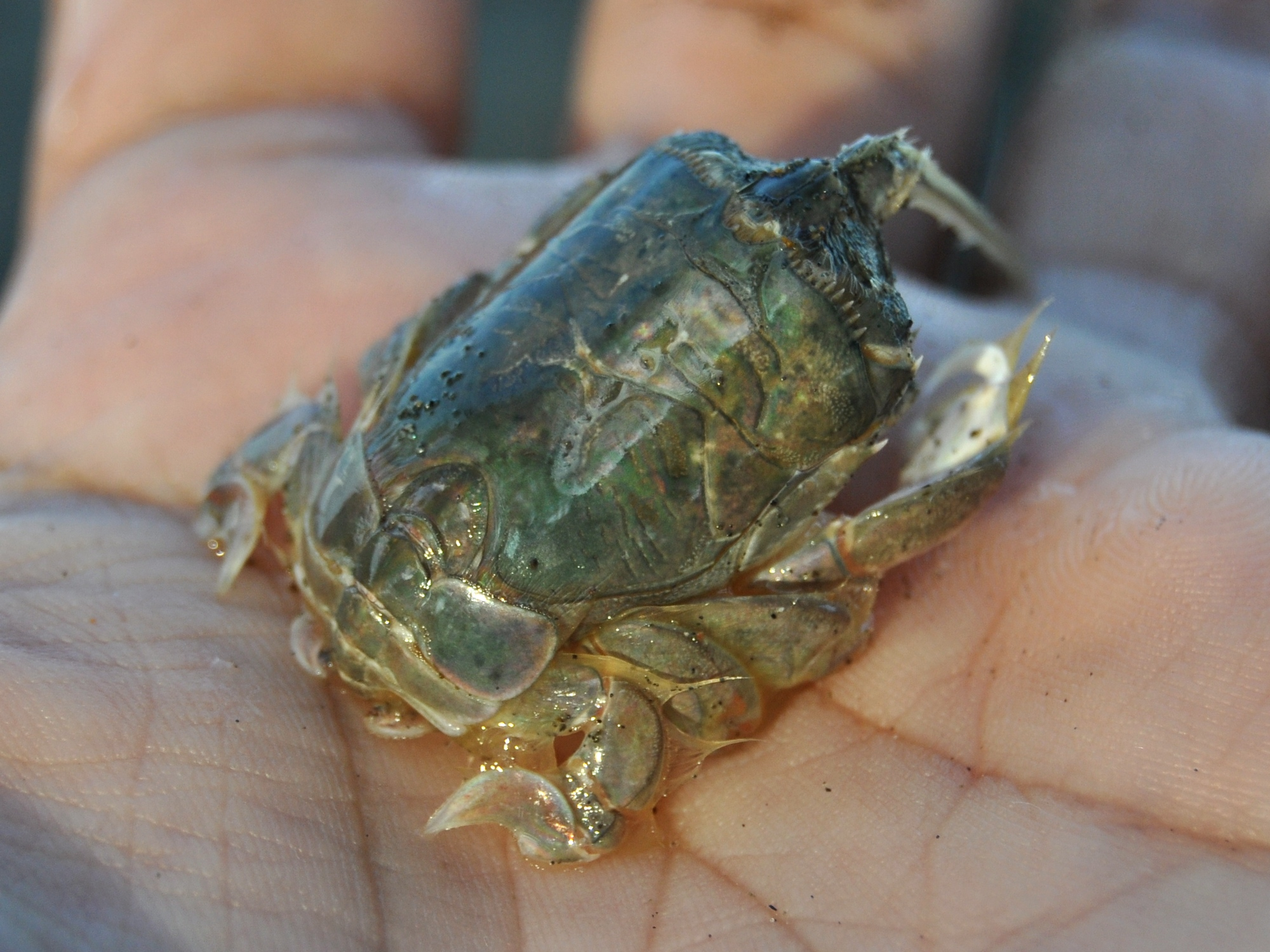 Mole crabs, Albunea symmysta (carapace length 19mm), dorsal view. Palabuhanratu, West Java, Indonesia.